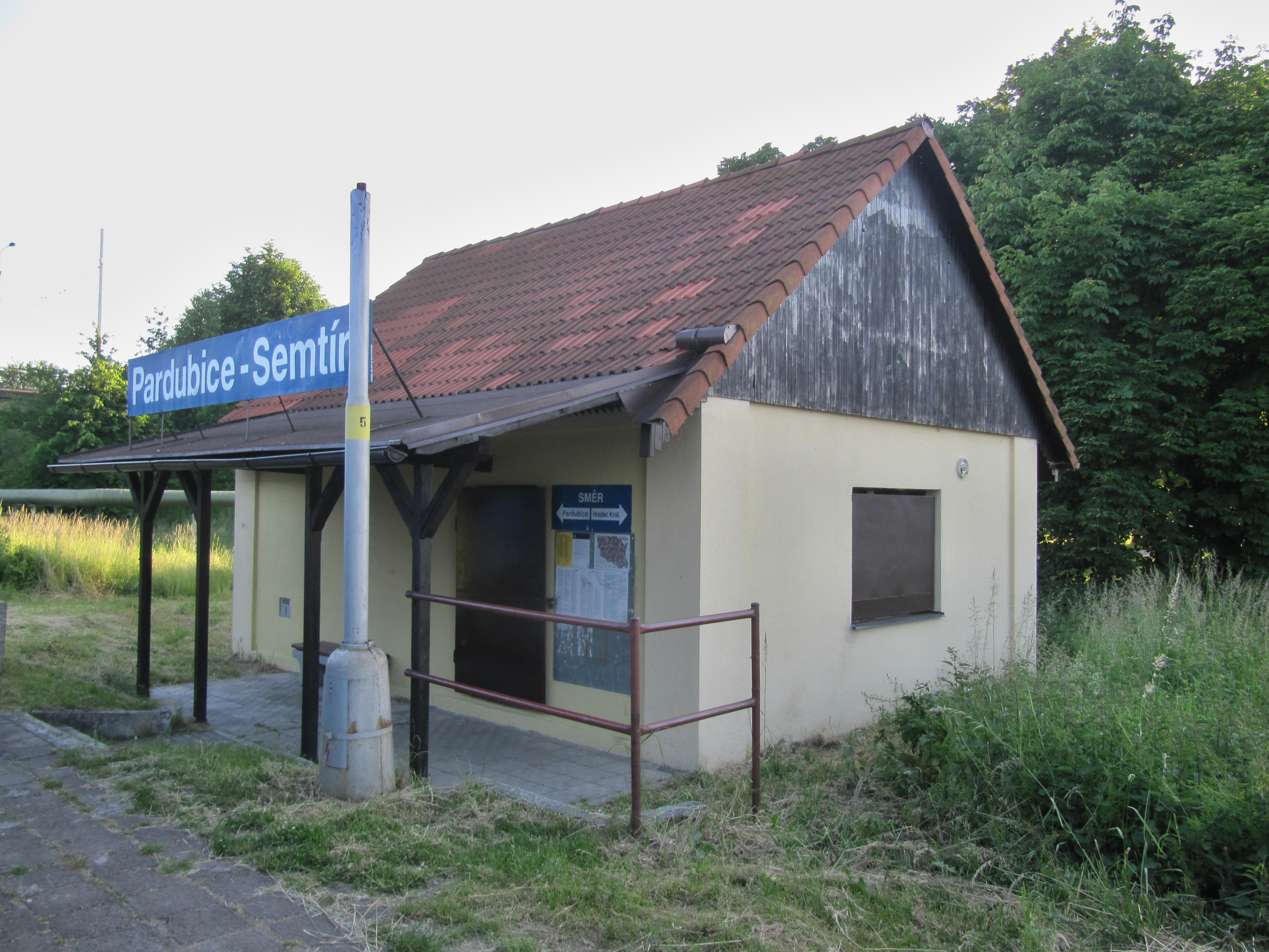 Pardubice-Semtín, Czech Republic. Train station.